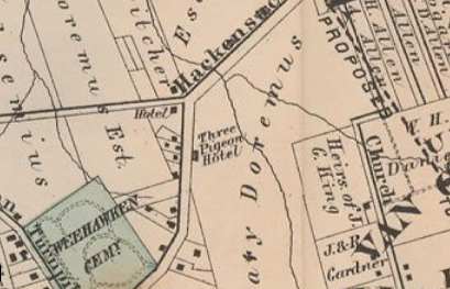 Piece of North Bergen Map